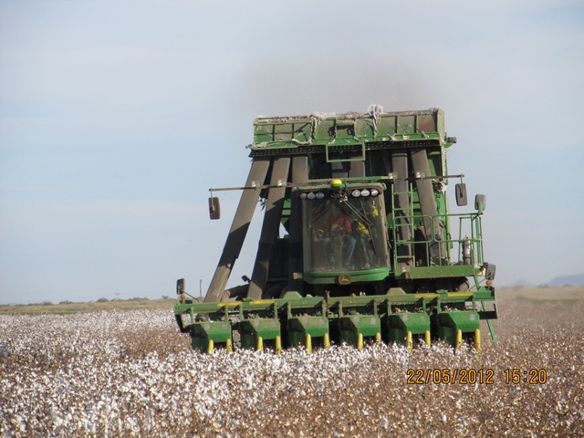 Cotton picker at work in Orania.